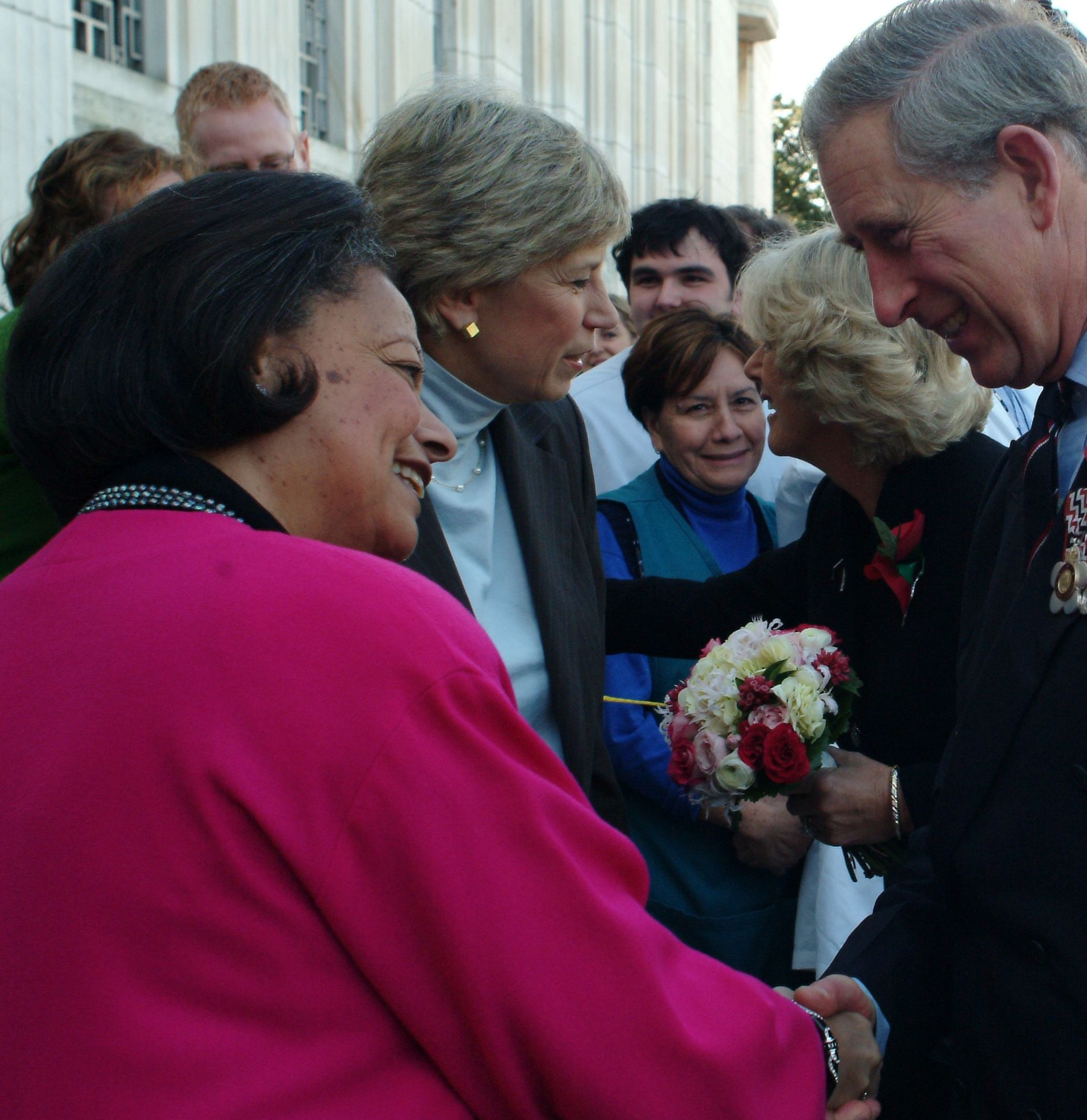 Group of people outdoors; Karen Hastie Williams shaking hands with Charles, Prince of Wales